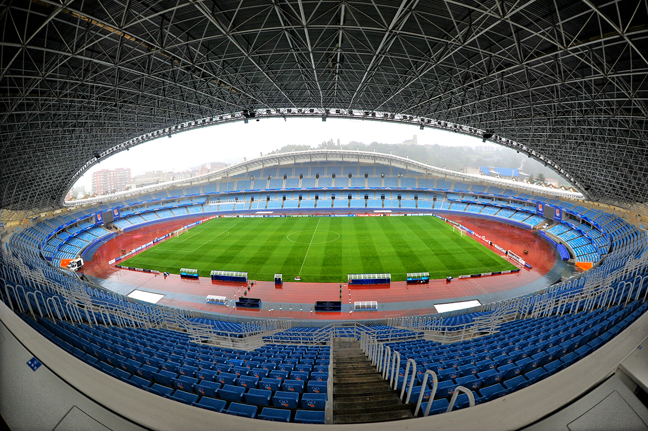 Anoeta Stadium in Donostia-San Sebastián, Basque Country, Spain